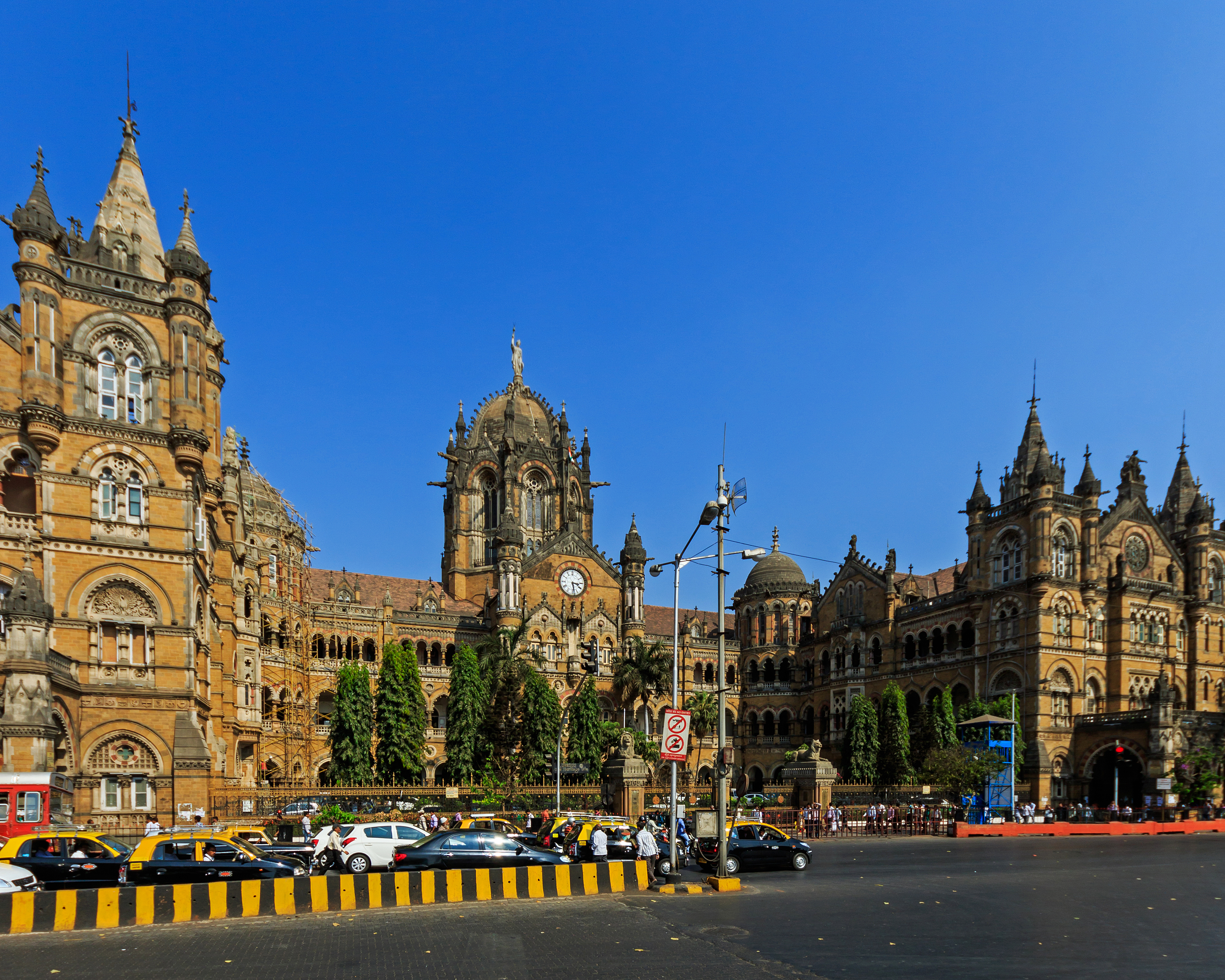 The Victoria Terminus (Chhatrapati Shivaji) in Mumbai, India